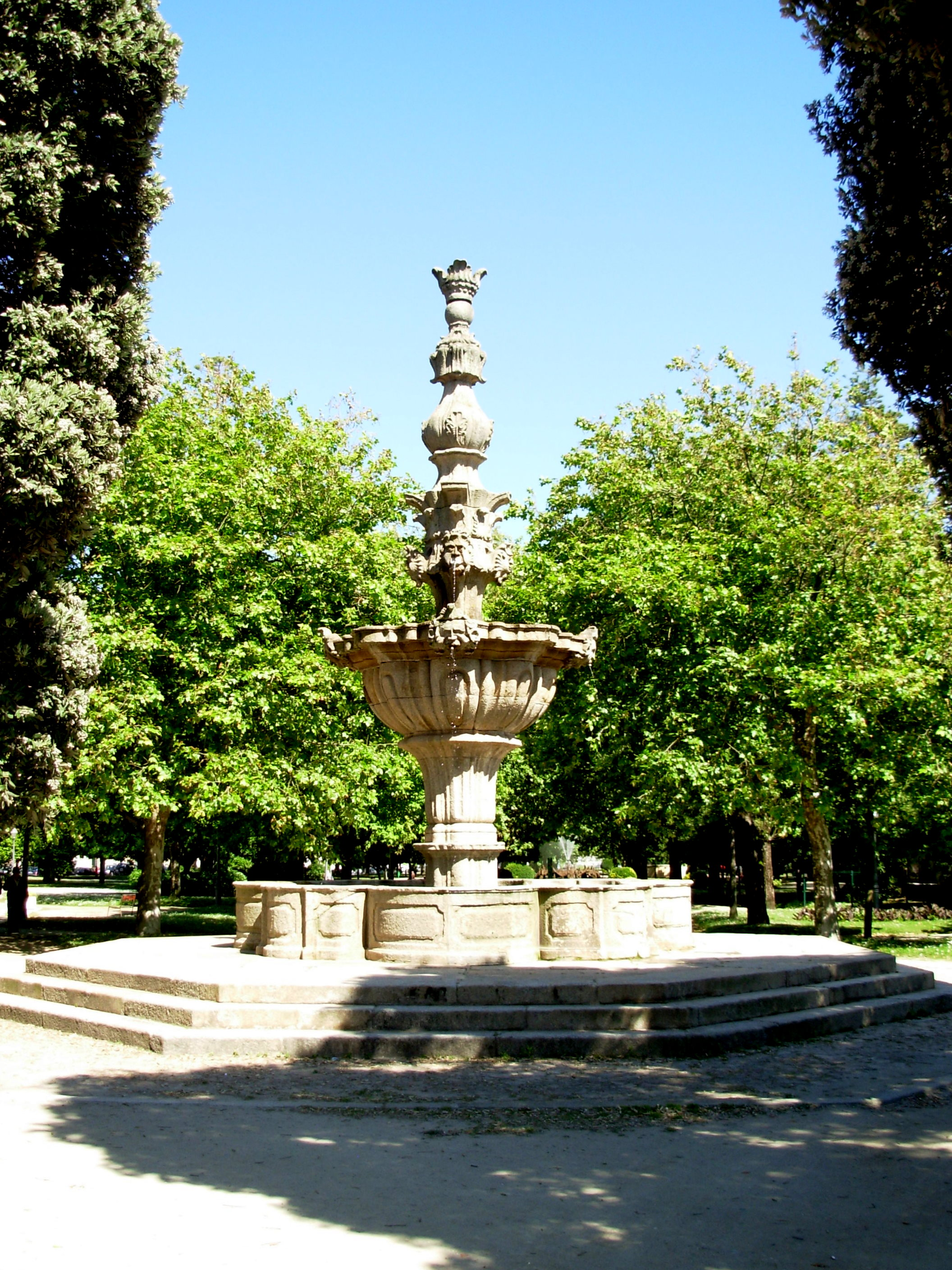 General view, Passeio Alegre fountain in Foz do Douro, Oporto, Portugal.